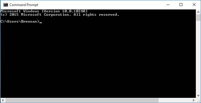 Windows Command Prompt running on Windows 10 RTM (Build 10240)